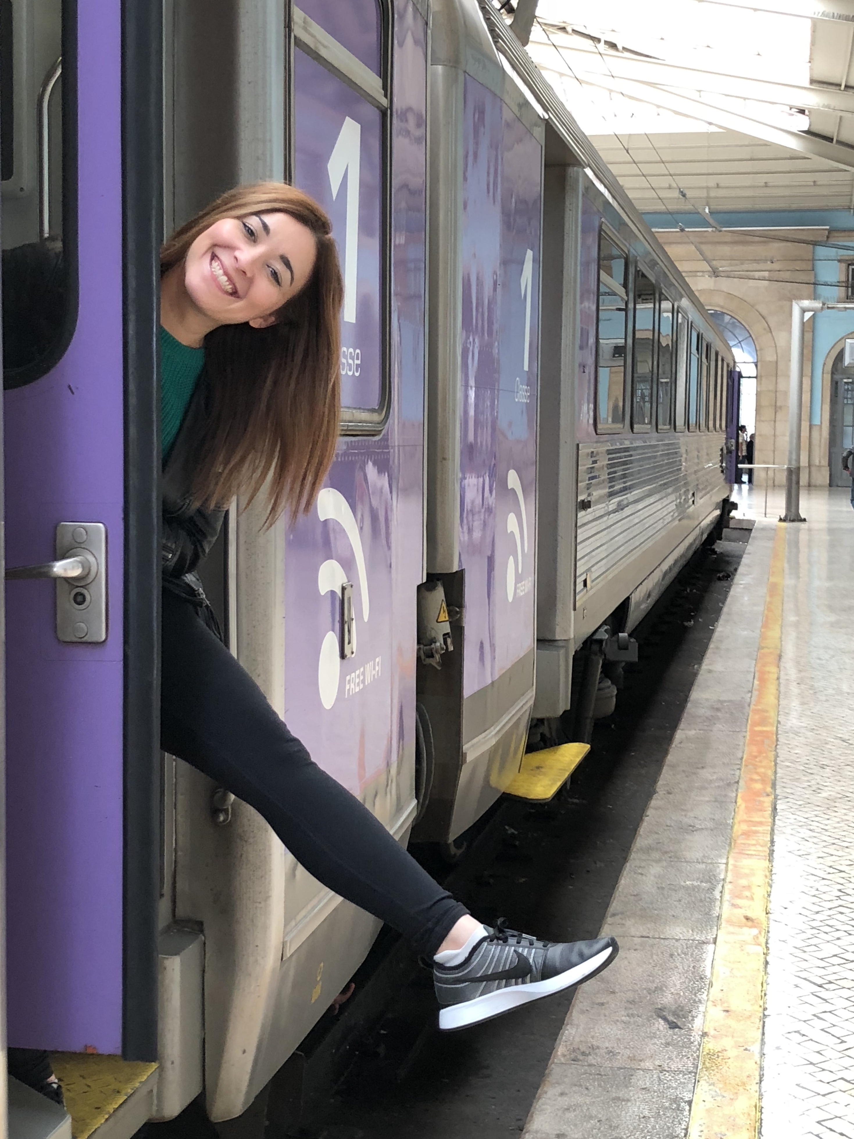 Deya on the Train to Porto